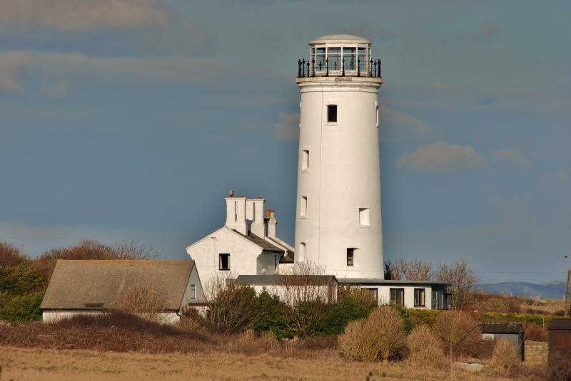 Portland: The Lower Lighthouse The lower lighthouse was opened on 29th September 1716 but was rebuilt several times.